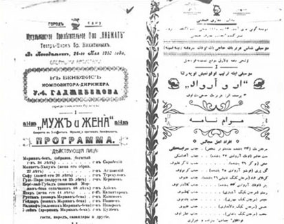 Playbill of the "Husband and wife" perfomance of Uzeyir Hajibayov